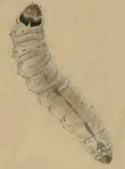 Stainton’s Natural History of the Tineina (1855–1873): Palumbina guerinii